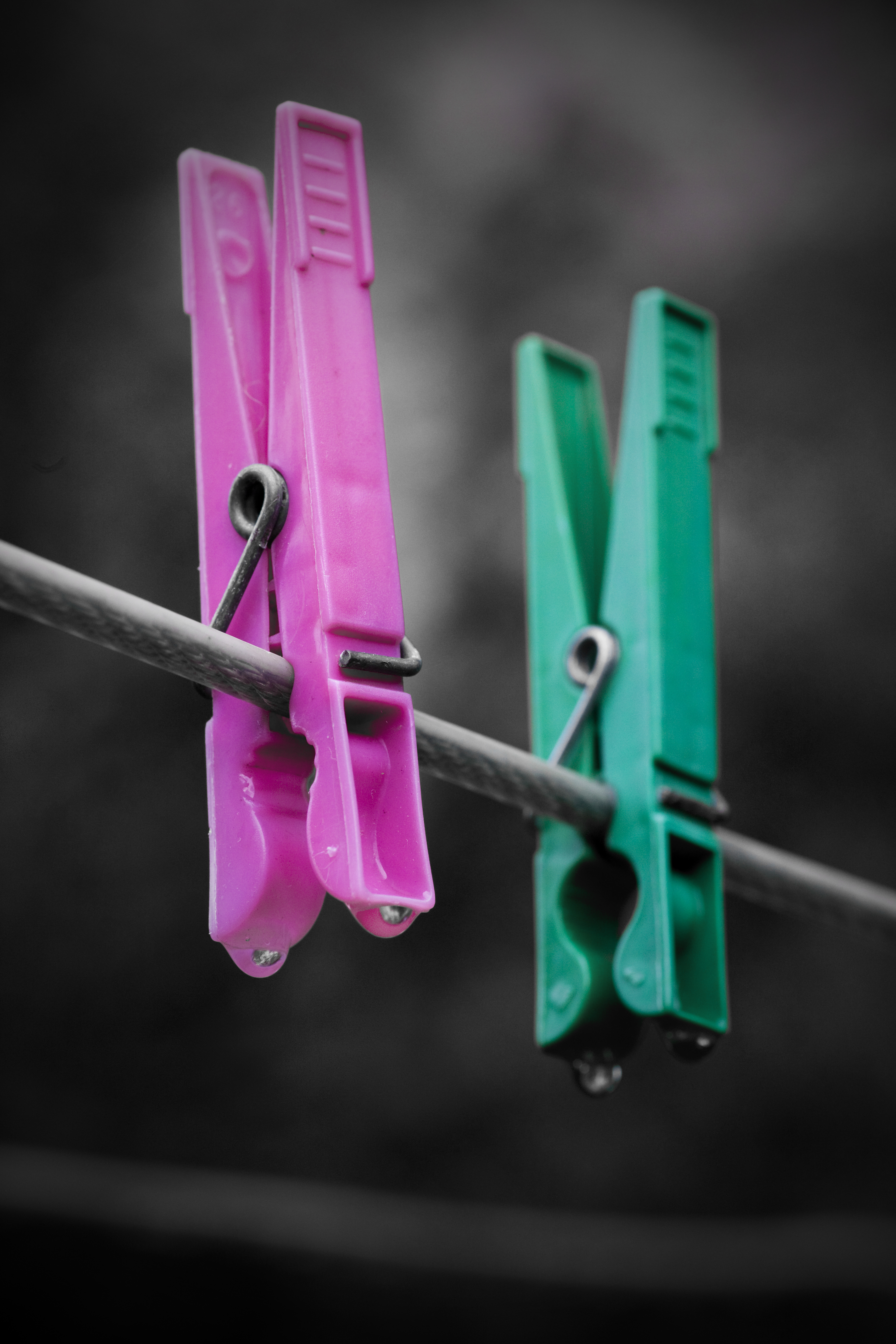 Clothespins